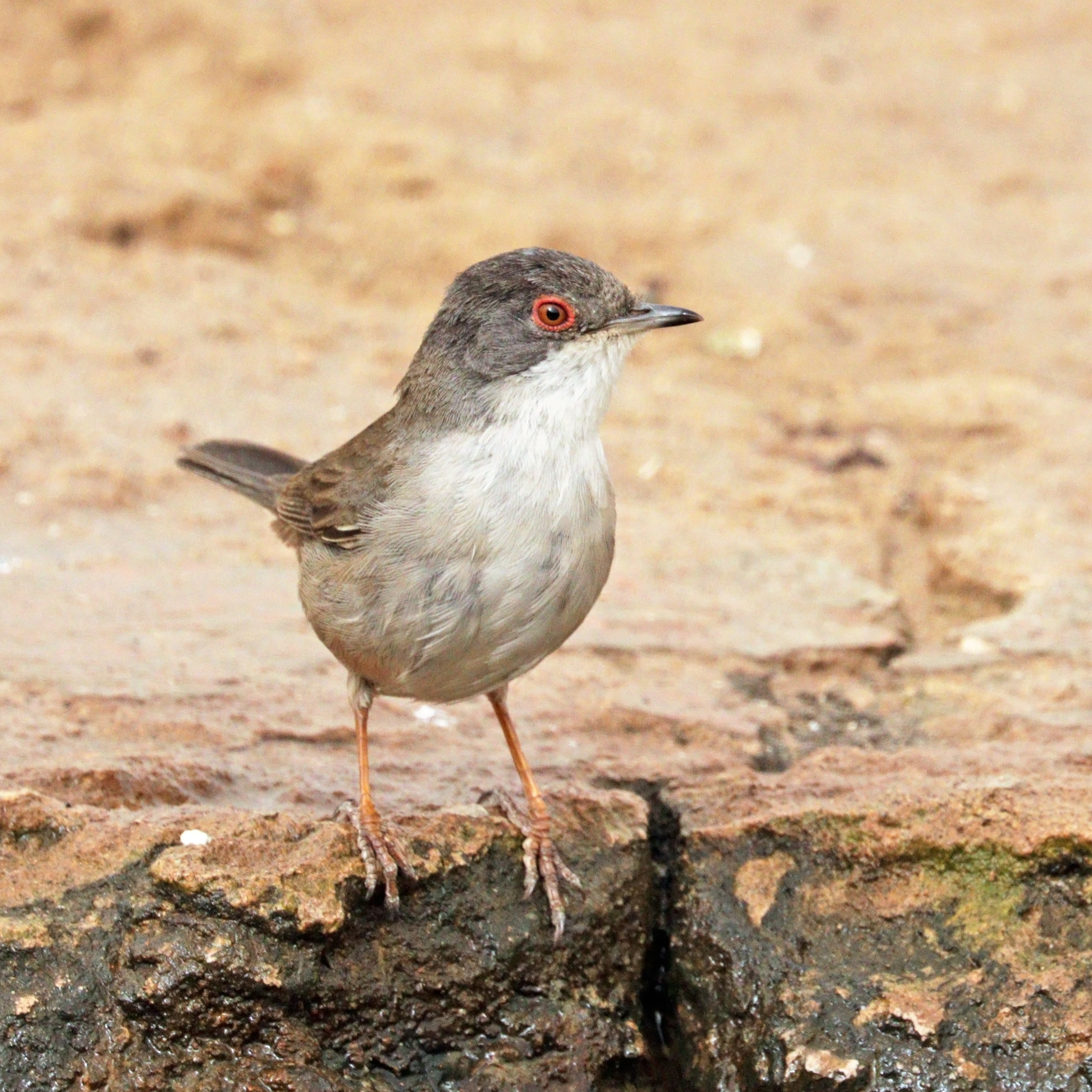 Sardinian warbler (Sylvia melanocephala) female, Souss-Massa National Park, Morocco